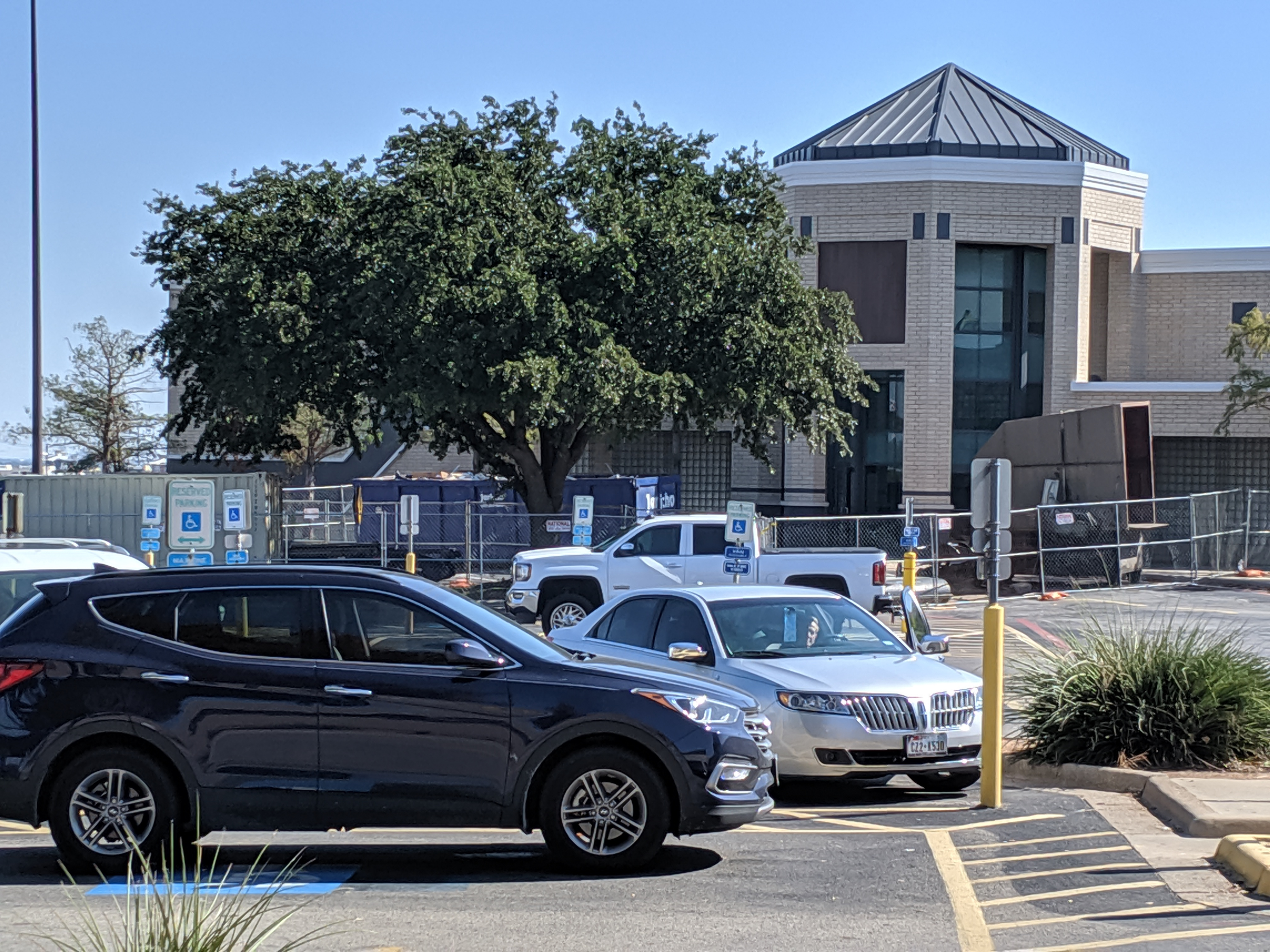 Depicts a vacant 2nd level entrance to sears